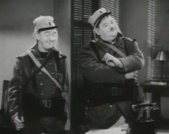 Stan Laurel and Oliver Hardy as French foreign légionnaires in their 1939 RKO picture The Flying Deuces.